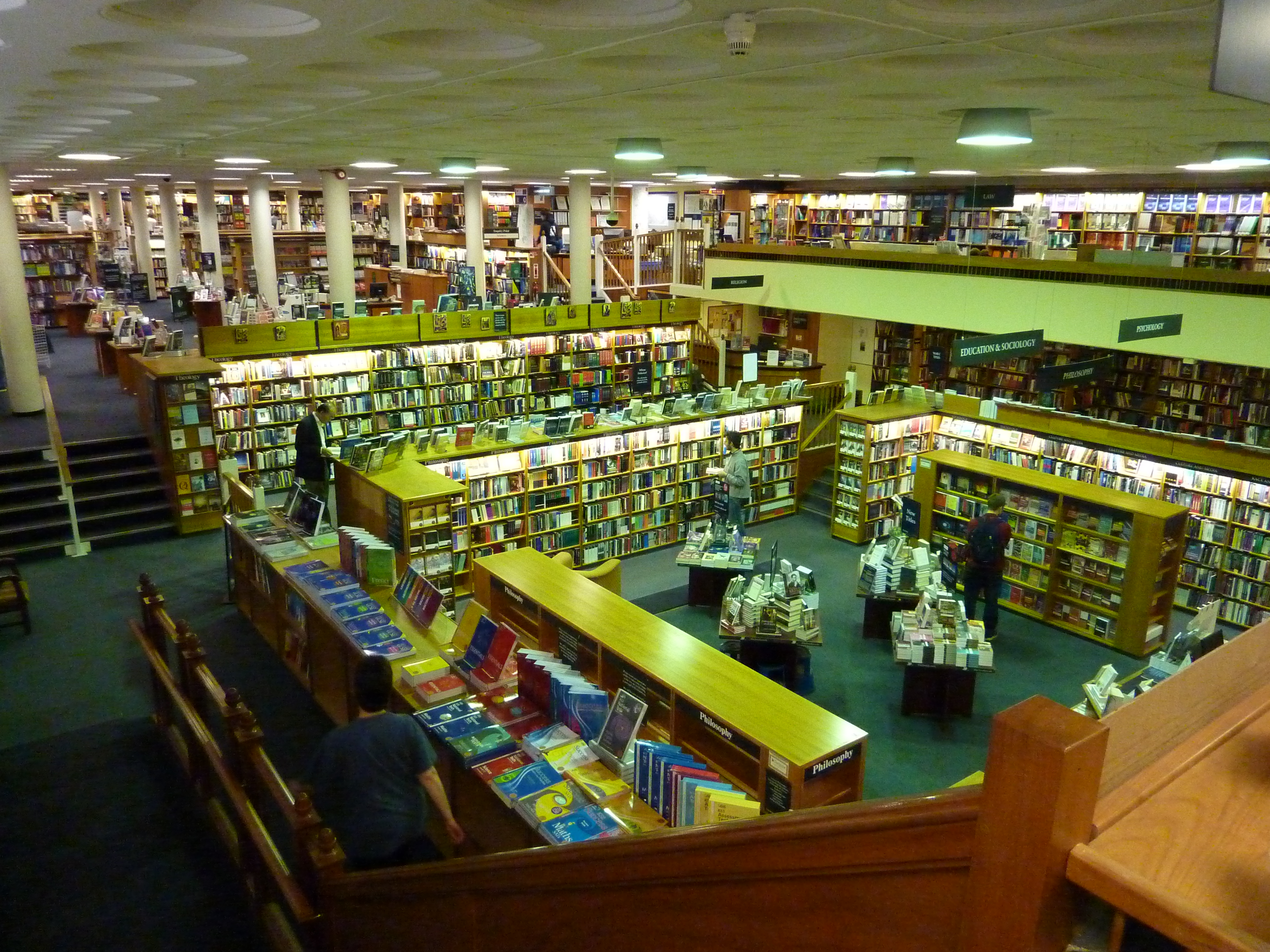 The Norrington Room in Blackwell's bookshop in Oxford contains more than 160,000 books. It is situated under the Trinity College, and is named after Sir Arthur Norrington